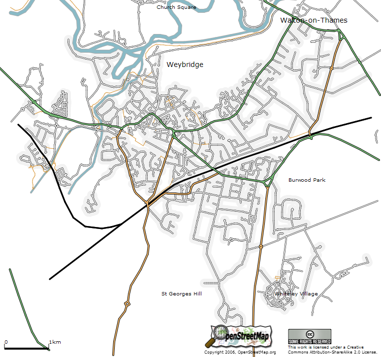 OpenStreetMap cut-out (or derivative work based on it): without further description This cut-out may be incomplete, and may contain errors, or may be obsolete. Don't rely solely on it for navigation. See the image in the present state and its original context on the OpenStreetMap wiki page for KT13_Weybridge